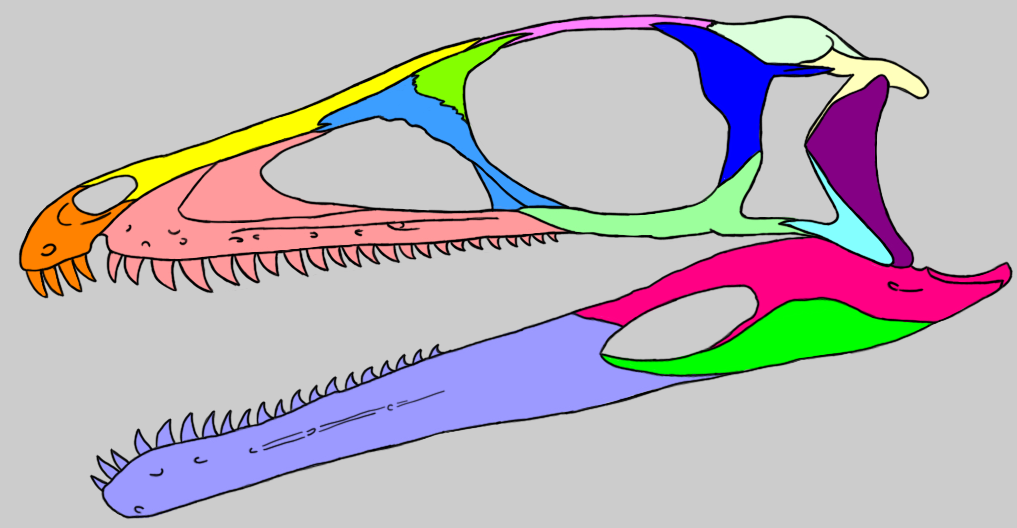 The skull of Buriolestes schultzi in left lateral view, based on CAPPA/UFSM 0035. Bones are individually color-coded identically to those of by AS. Legend: Premaxilla Maxilla Nasal Lacrimal Prefrontal Frontal Jugal Postorbital Parietal Squamosal Quadrate Quadratojugal Surangular/articular Angular Dentary